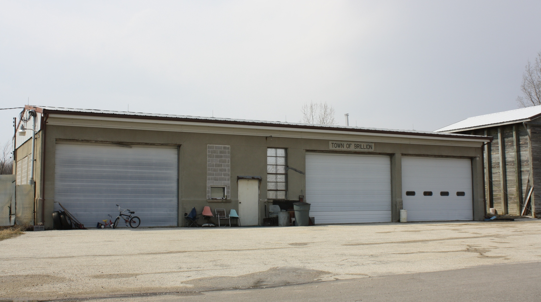 The town hall for the town of Brillion (town), Wisconsin near Forest Junction, Wisconsin.